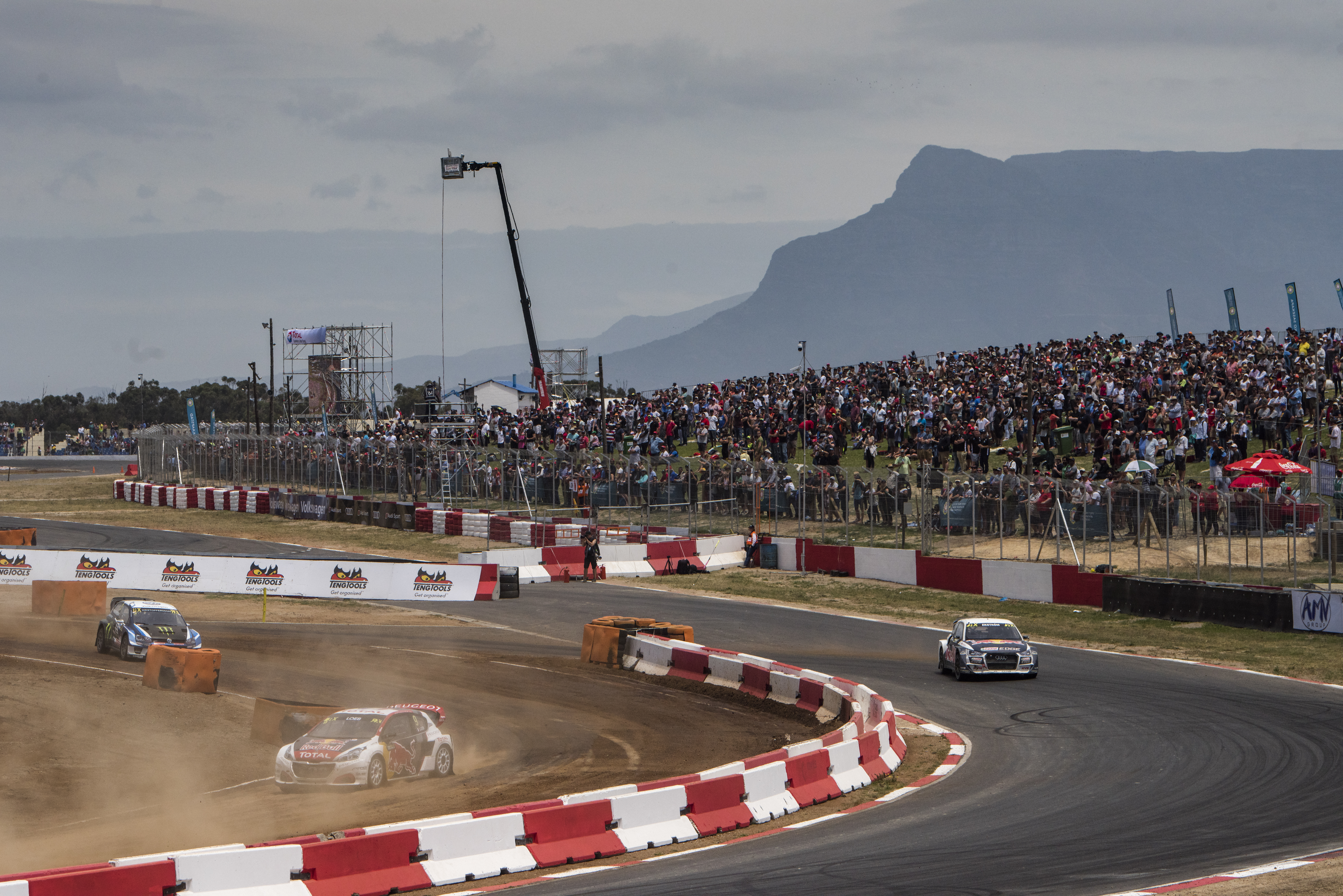 2017 FIA World Rallycross Championship // Round 12, Cape Town // Credit: EKS/Jaanus Ree